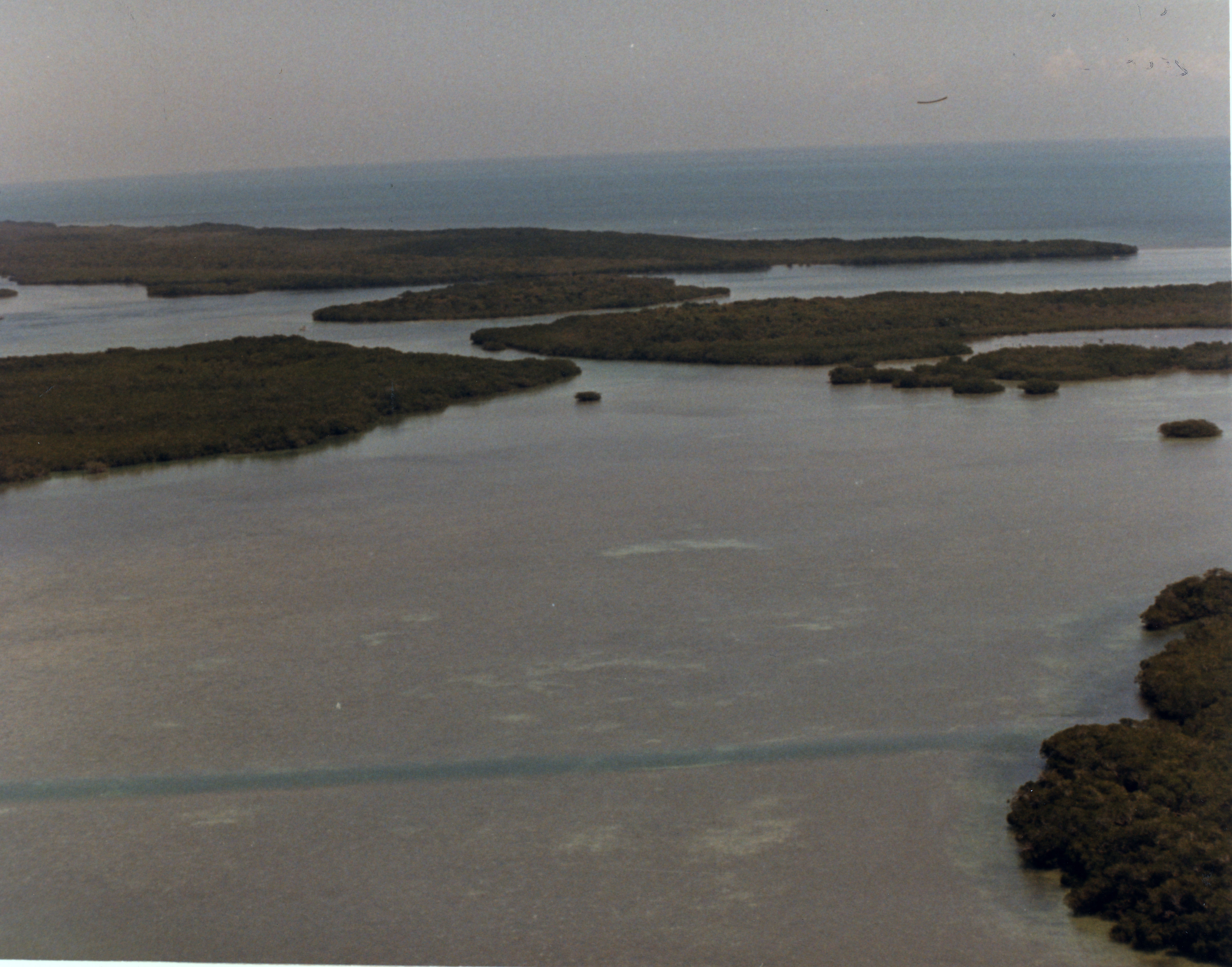 Aerial of Reid and Porgy Key. Photo taken by the Federal Government on October 7, 1987. From the Wright Langley Collection.